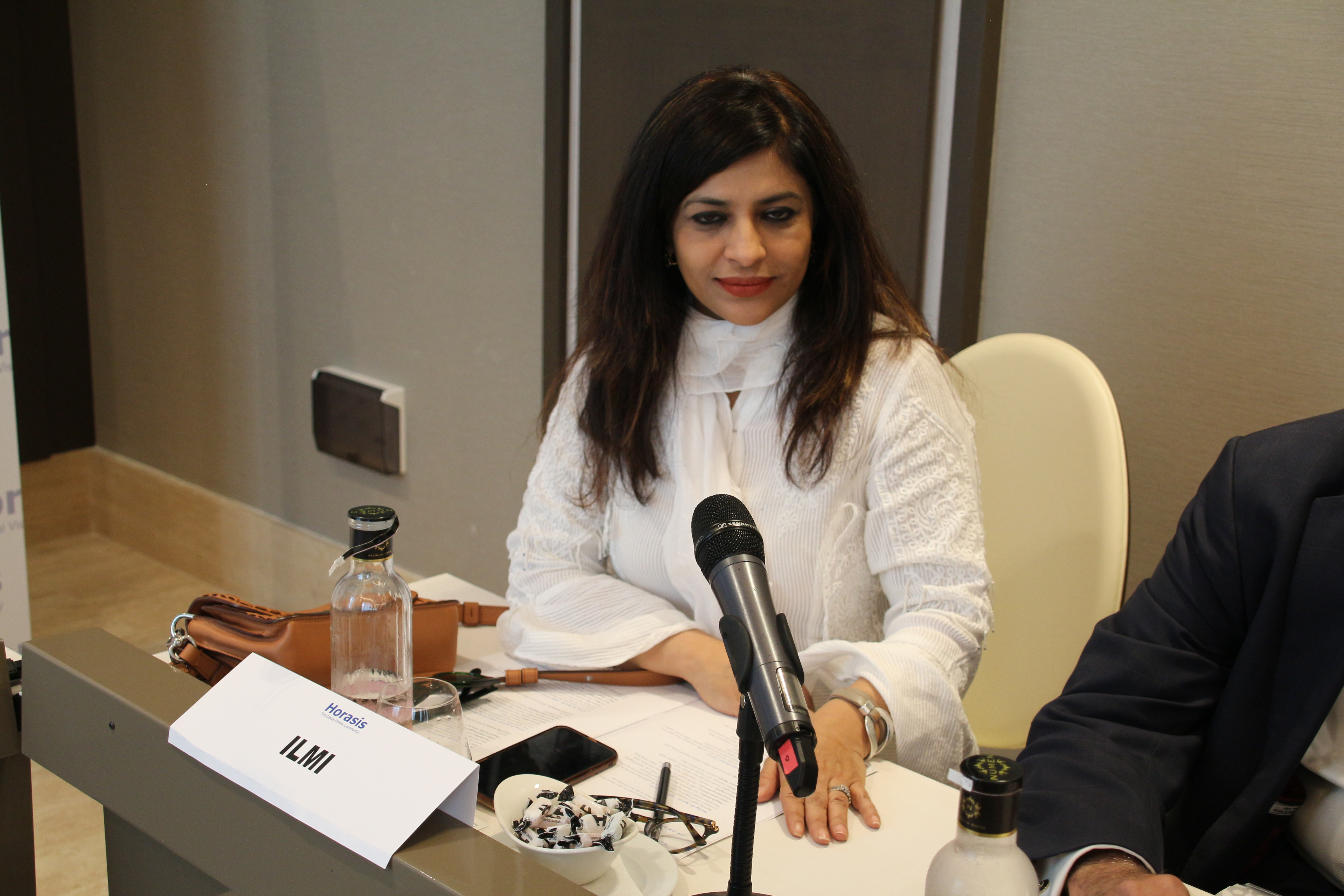 Shazia Ilmi, BJP National Spokesperson, about the state of Indian politics